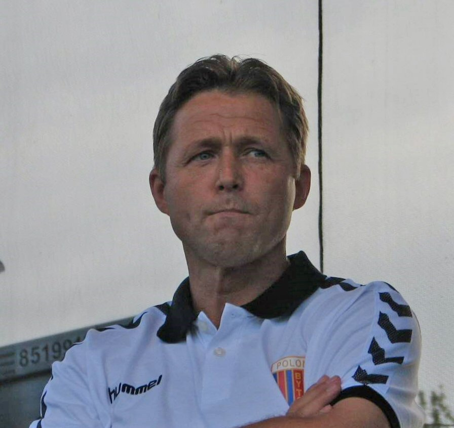 Yuriy Shatalov - association football player and coach.